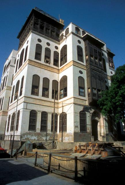 Saudi Traditional house in the city of Jeddah.